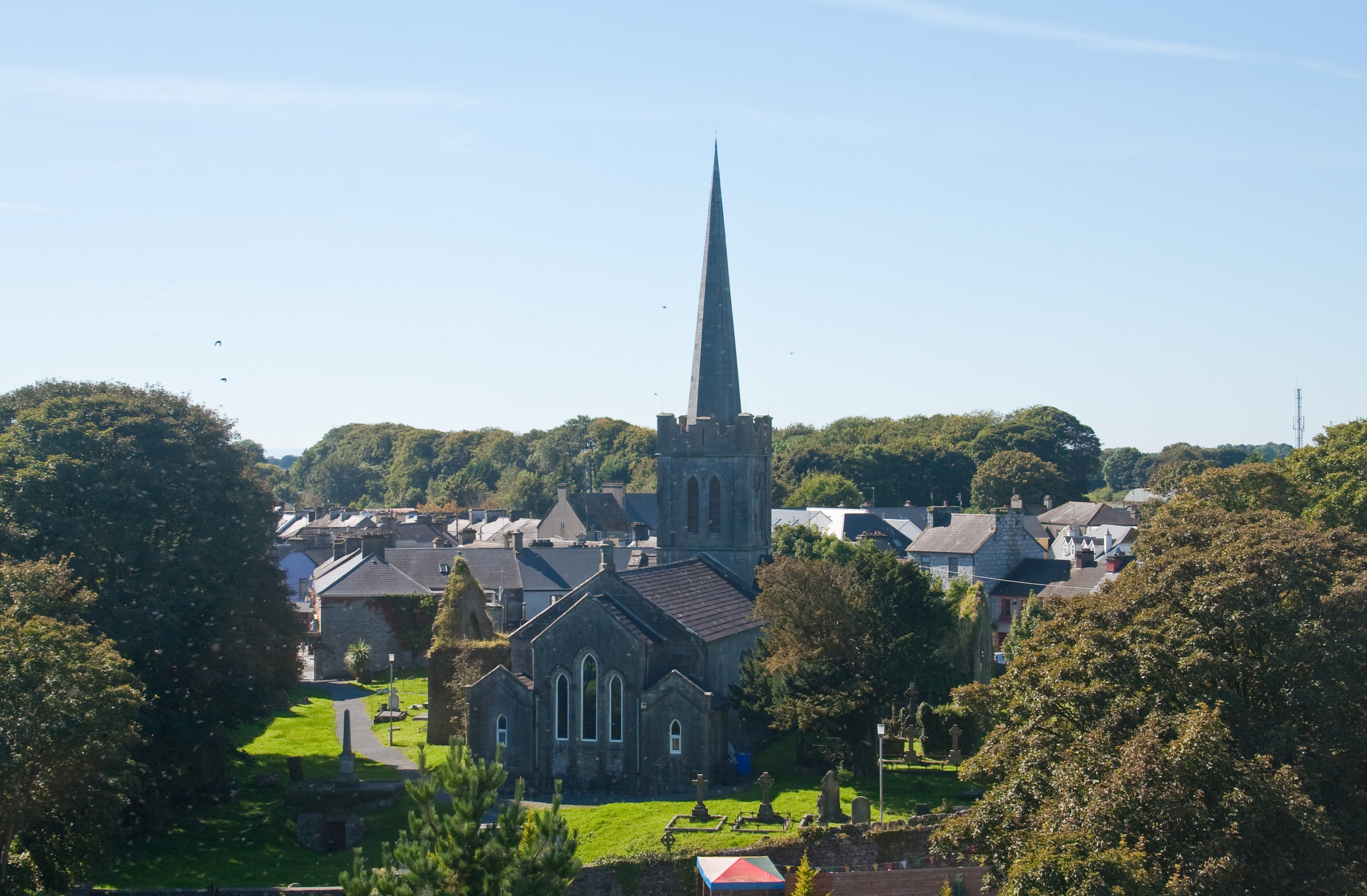 Athenry, County Galway, Ireland St. Mary's Parish Church and town as seen from Athenry castle, looking south-west.